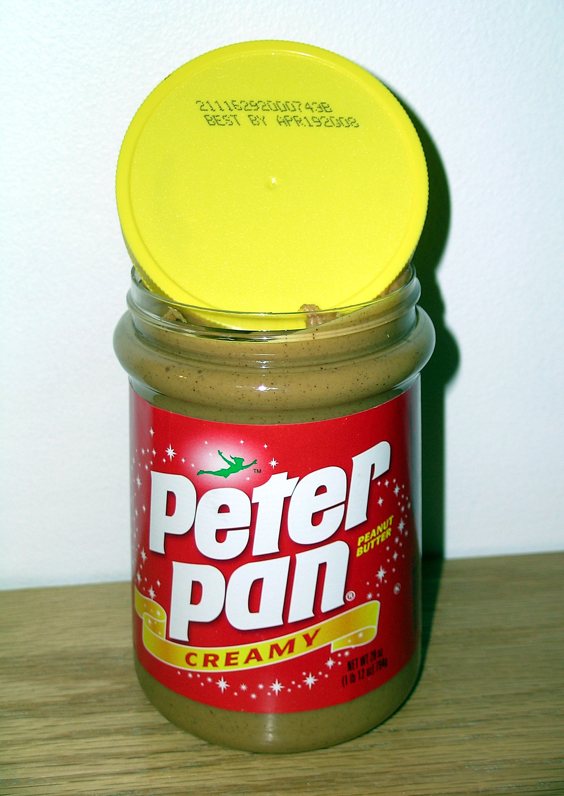 Mmmmm!! yum! potentially salmonella contaminated jar of Peter Pan with "2111" product code. Taken by me.